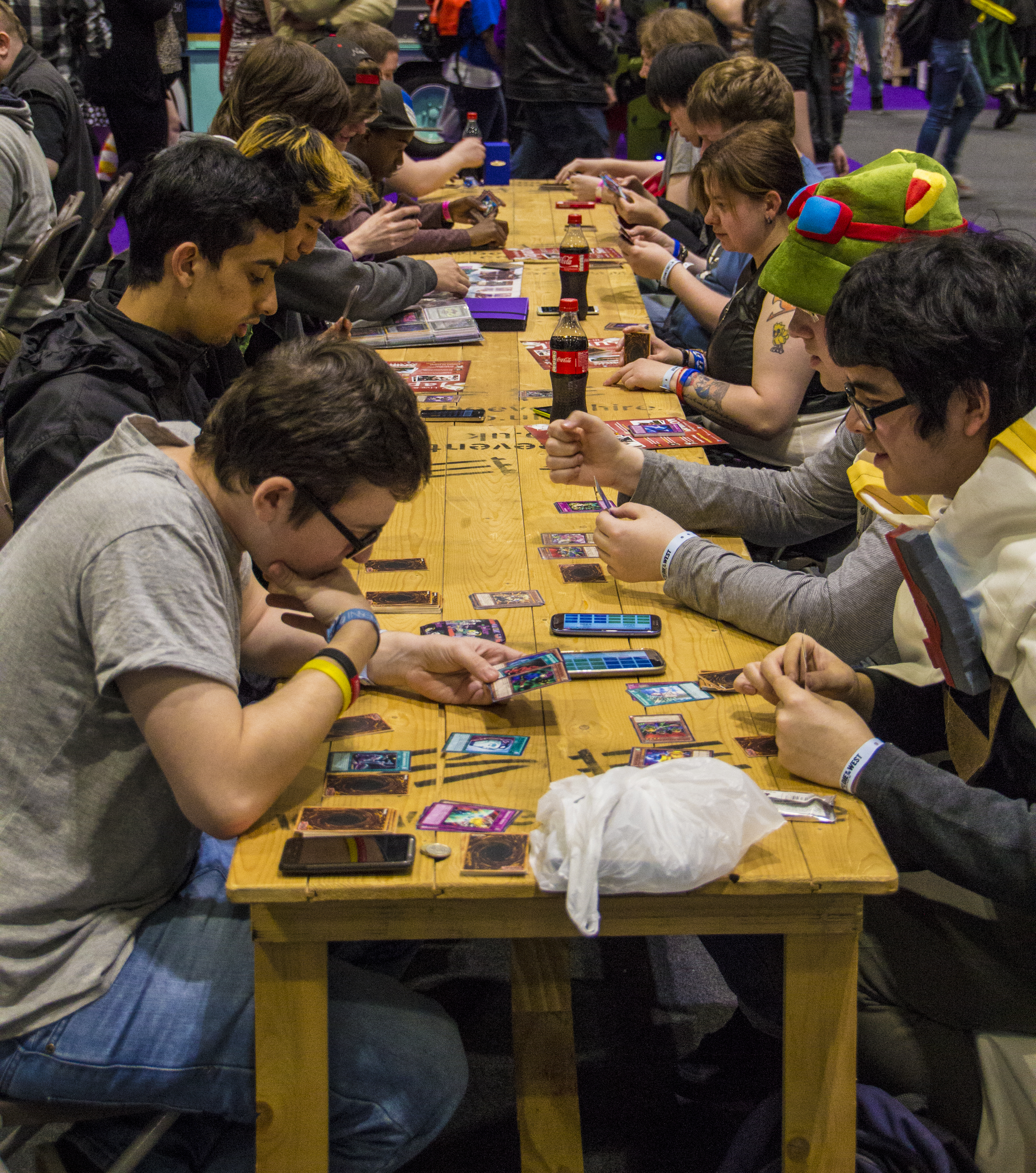 The May 2014 MCM London Comic Con at the ExCel Centre.